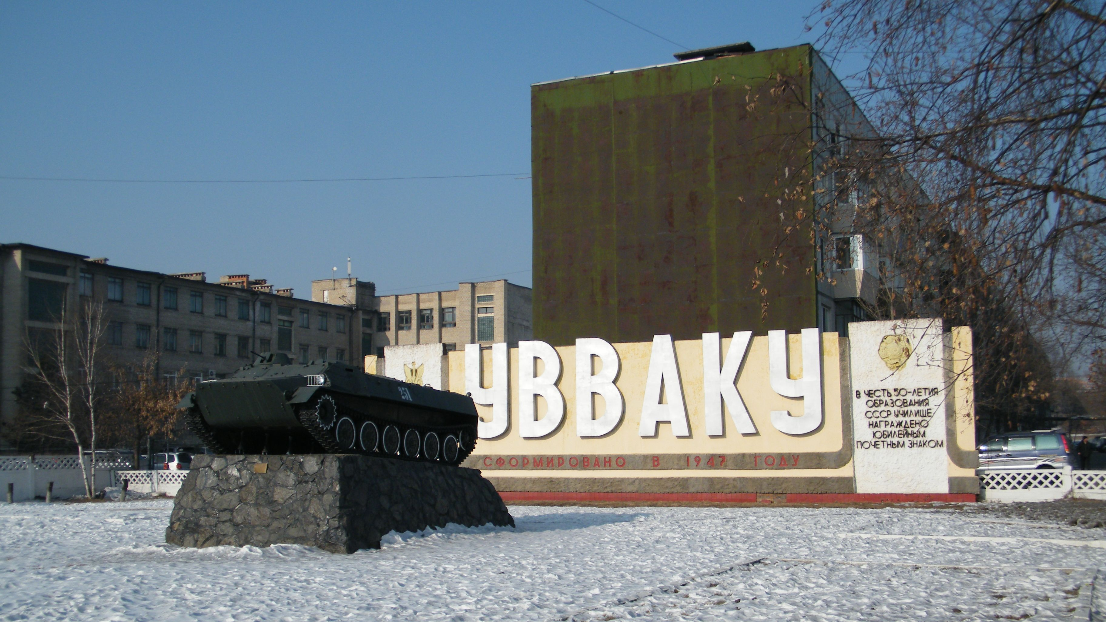 UVVAKU